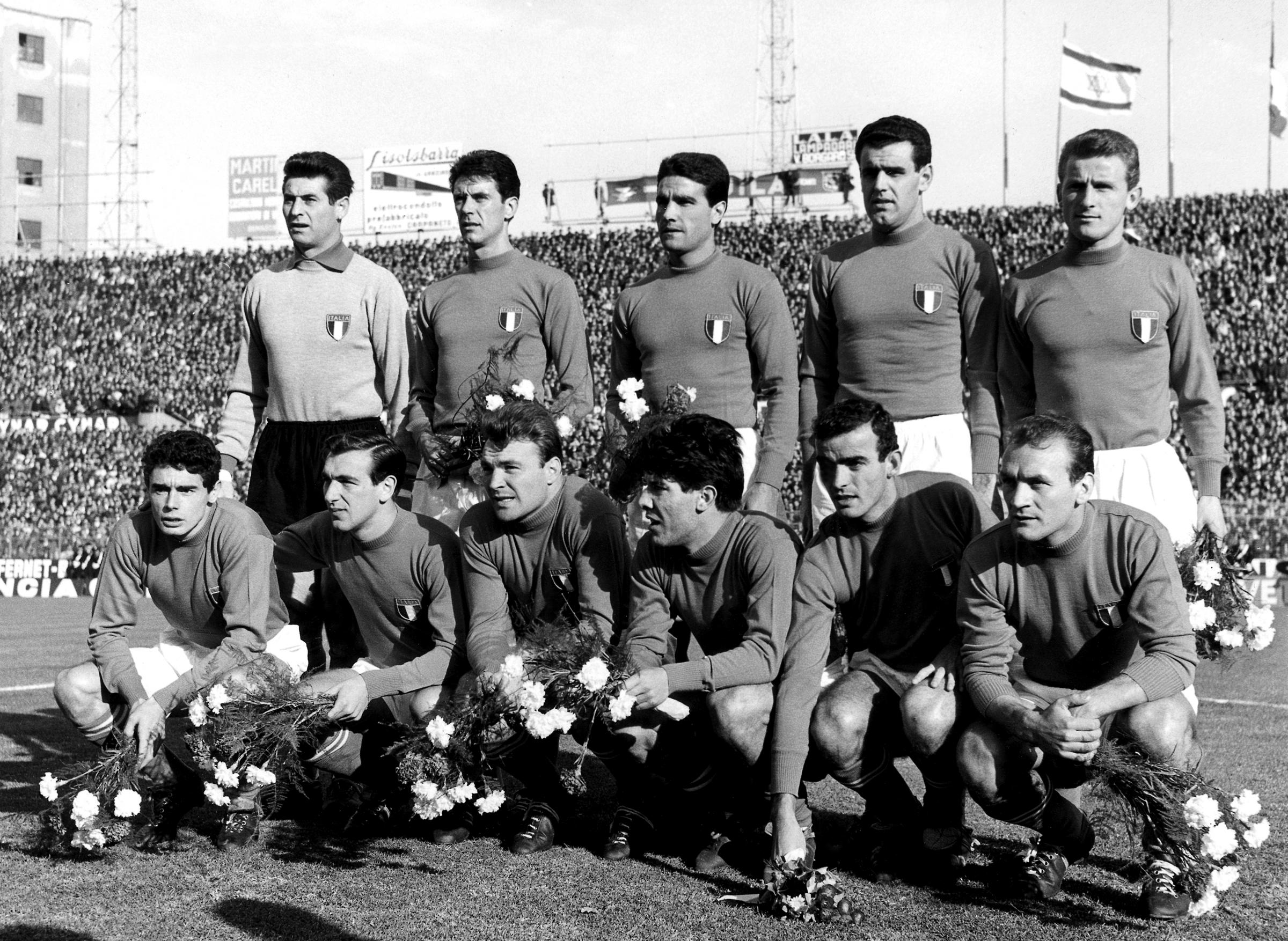 Turin (Italy), Communal Stadium, November 4, 1961. The line-up of Italy took to the pitch in the victorius home match versus Israel (6-0), retour match of 1962 FIFA World Cup qualification, UEFA Group 7, Final round. From left to right, standing: L. Buffon, C. Maldini, E. Robotti, B. Bolchi, G. Trapattoni; crouched: B. Mora, A. Angelillo, J. Altafini, O. Sívori, M. Corso, G. Losi.